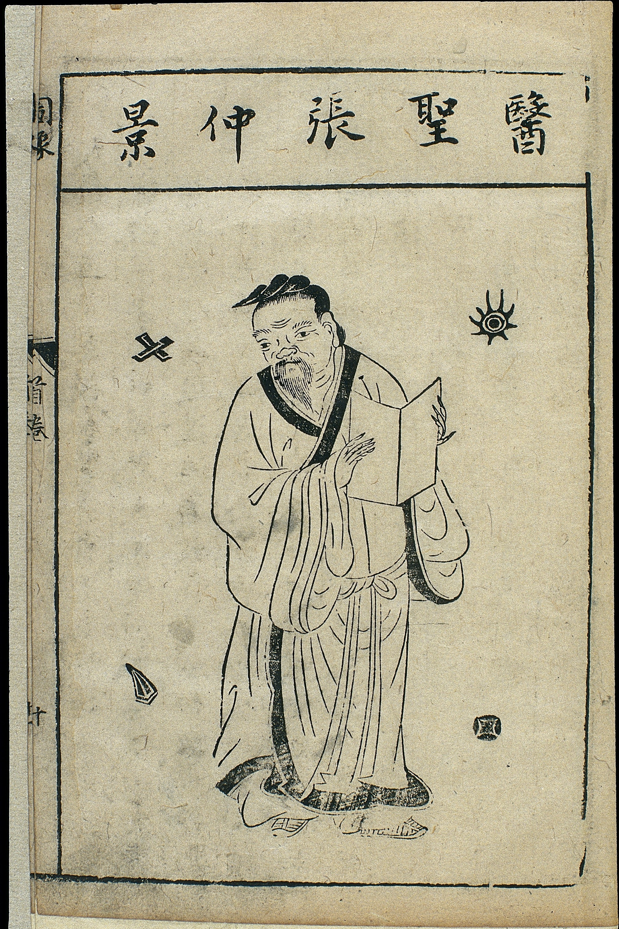 One of a series of woodcuts of illustrious physicians and legendary founders of Chinese medicine from an edition of Bencao mengquan (Introduction to the Pharmacopoeia), engraved in the Wanli reign period of the Ming dynasty (1573-1620) -- Volume preface, 'Lidai mingyi hua xingshi' (Portraits and names of famous doctors through history). The images are attributed to a Tang (618-907) creator, Gan Bozong.The account in 'Portraits and Names of Famous Doctors through History' states: Zhang Ji, styled Zhang Zhongjing, a native of Nanyang, was Prefect of Changsha under the Han Dynasty (206 BCE-220 CE). Building on the foundations of Shen Nong Bencao jing(The Divine Farmer's (The Divine Farmer' s Canon of Materia Medica) and other pre-Han medical works, he wrote Shanghan zabing lun (Treatise on Cold Damage and Various Illnesses), establishing the school of medical theory later known as Zhongjing xueshuo(the Zhongjing school). Though this work no longer exists in its original form, it has been transmitted as edited and reworked by Wang Shuhe in the Jin period (265-420). It came to be regarded as the foundation of the theory of prescribing in Chinese medicine.Woodcut By: Gan Bozong (Tang period, 618-907)